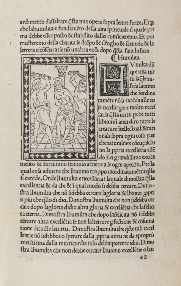 Girolamo Savonarola: Dell' umiltà. [Florence: Bartolommeo di Libri, before Sept. 1495?], fol. 2 recto (ISTC No.: is00279000).